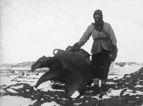 The image is from the National Library of Australia collection, catalogue number nla.pic-vn4390222. Caption: Griffith Taylor standing next to a weathered kenyte southeast of Hut Point near Cape Evans, Antarctica, 15 October 1911 URL =